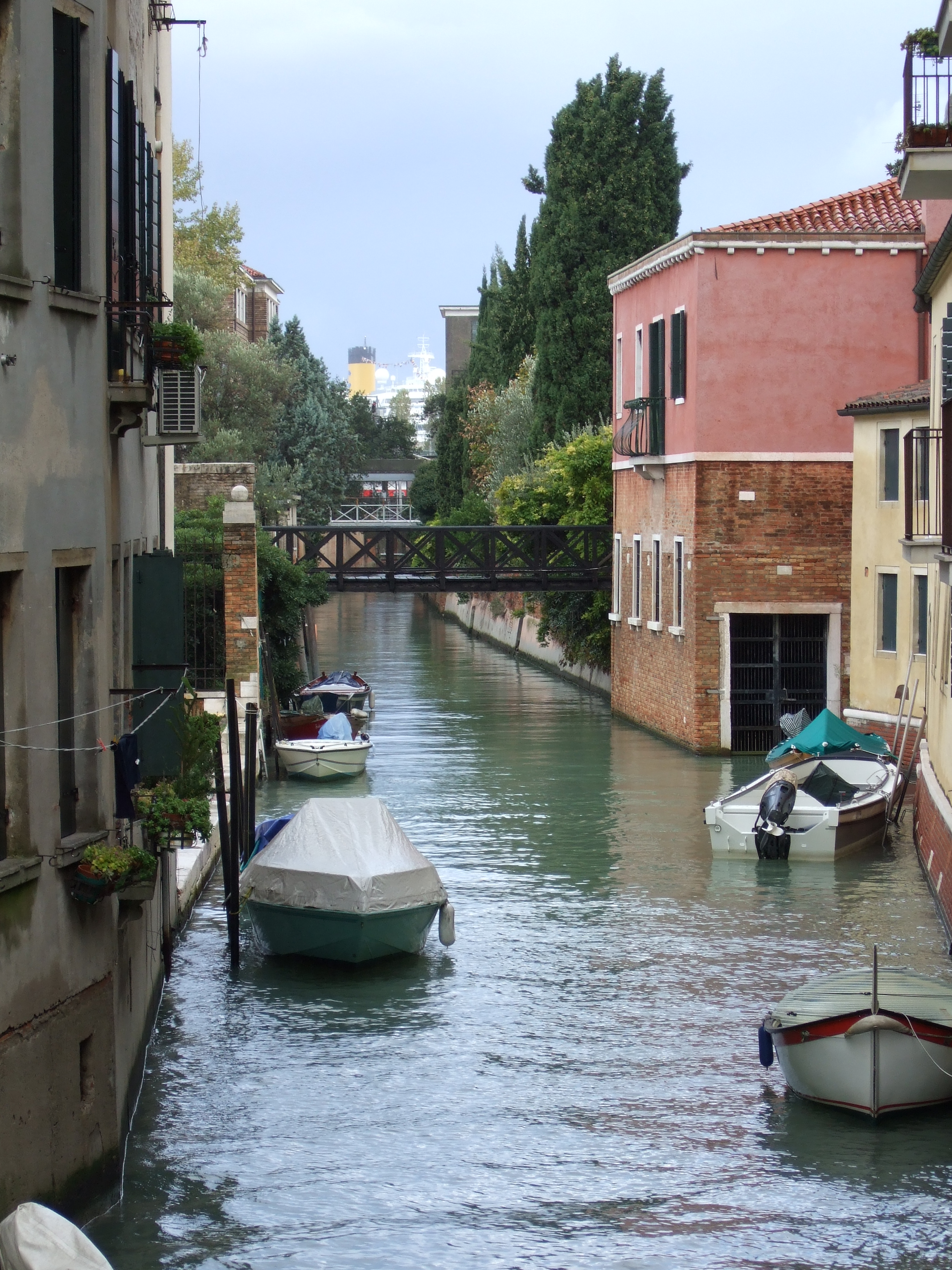 Rio de San Giobbe (Venice) south-west view from PONTE DE LA SAPONELA